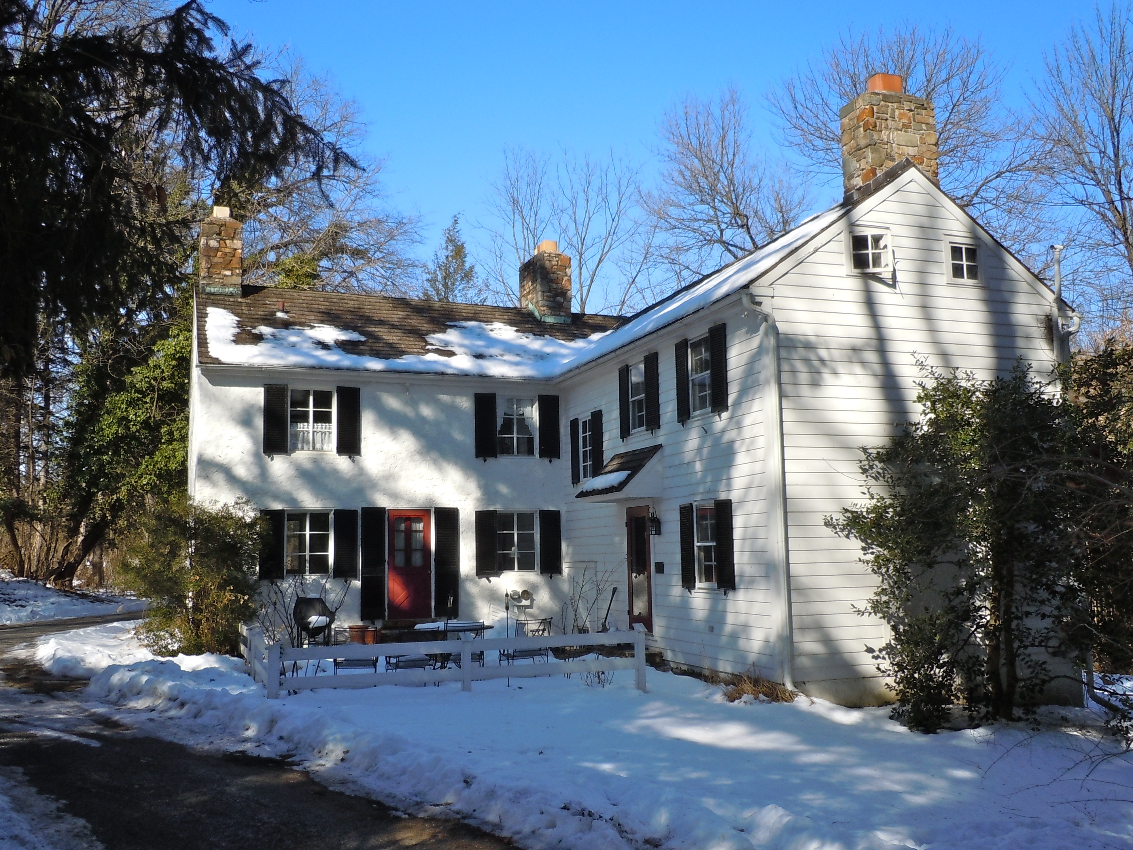 Wee Grimmet on the NRHP since August 2, 1984, at 624 West Lincoln Highway (US 30), in West Whiteland Township (between Exton and Downingtown), Chester County, Pennsylvania. Near the Osterheimer Estate also on the NRHP